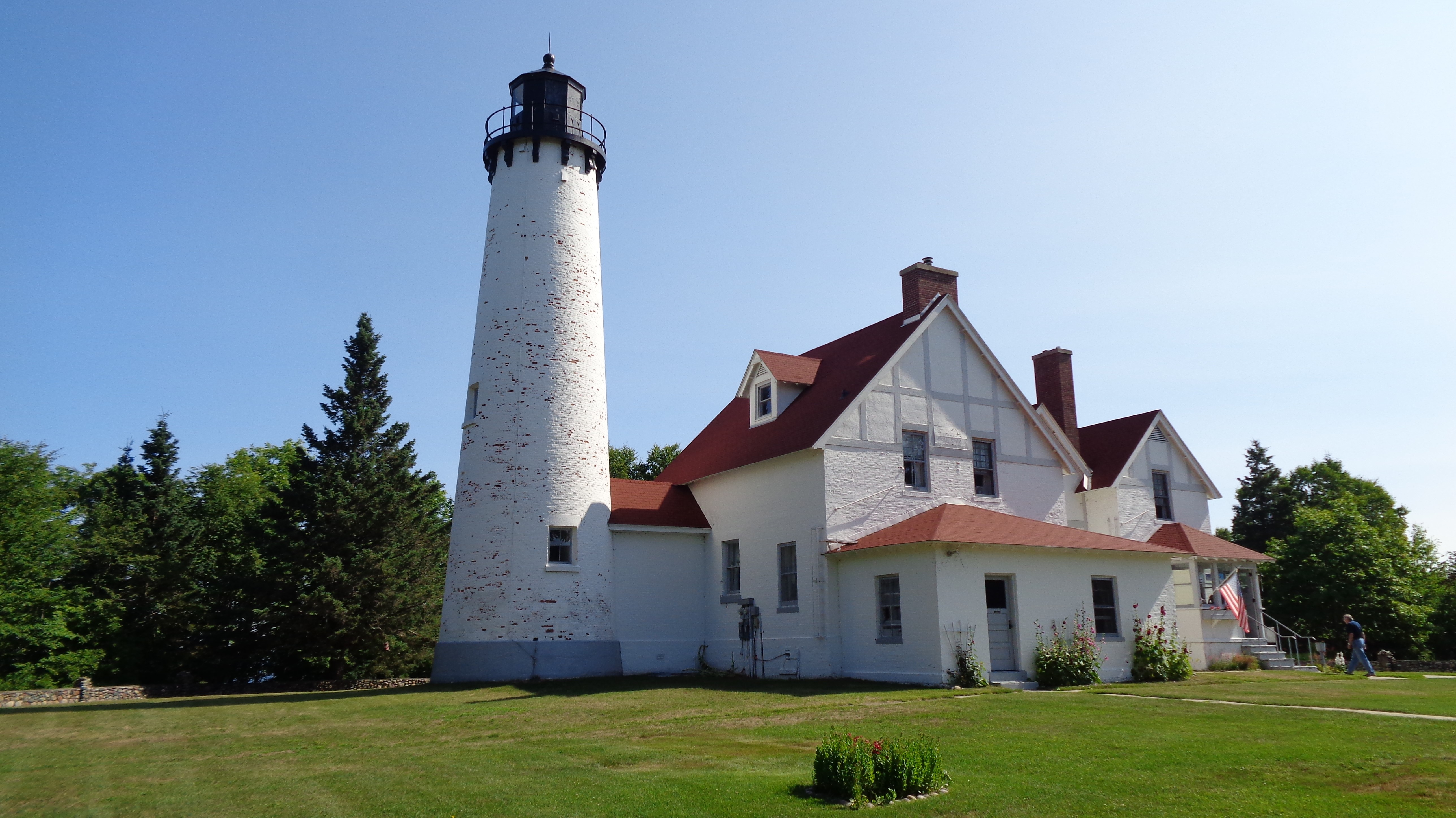 Depicted place: Point Iroquois Light